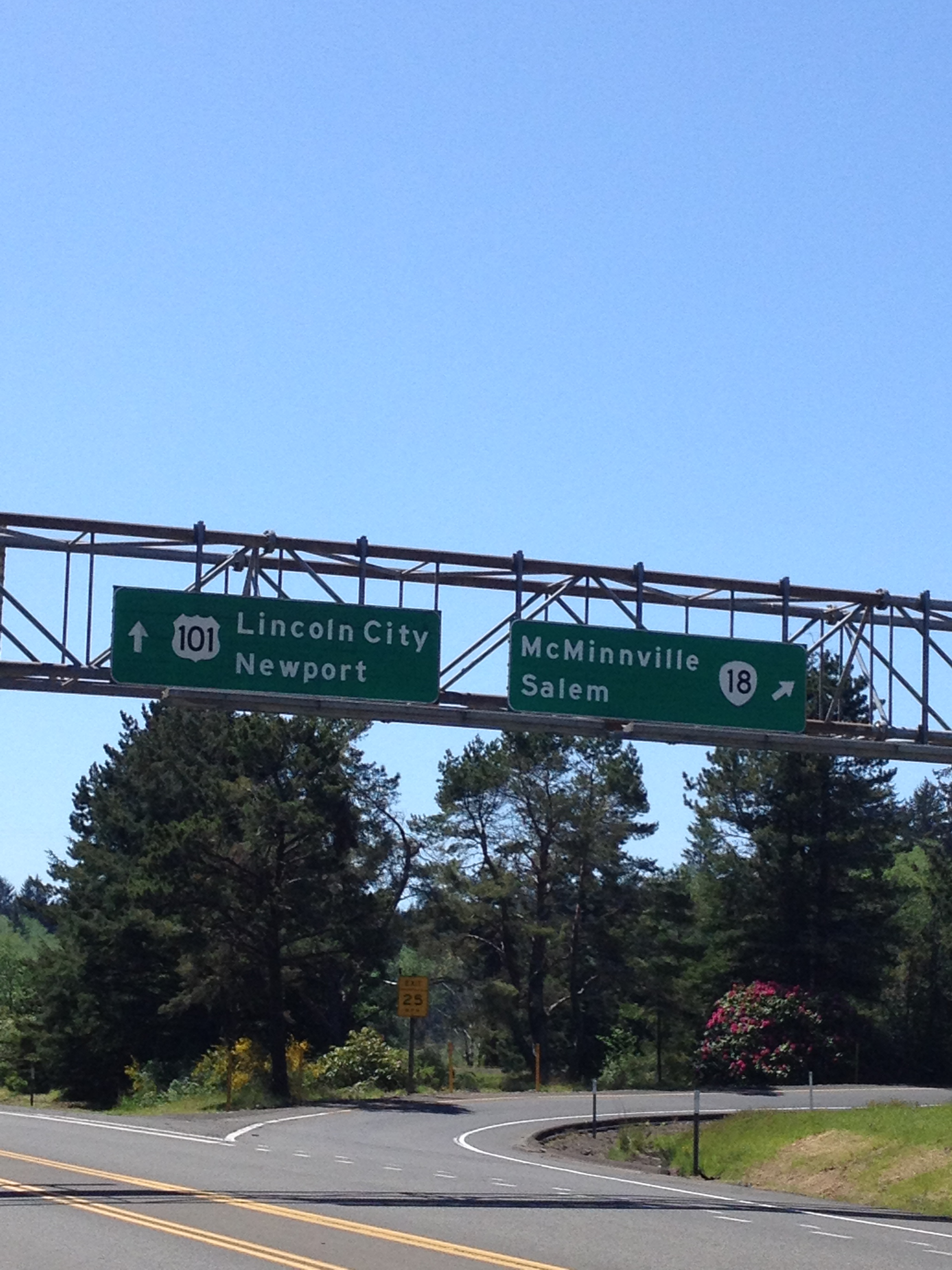 Looking the other way at the Oregon 18/US101 interchange.